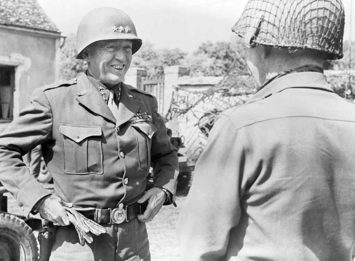 General Patton inspecting troops after he got back into action in France a month and a half following the Normandy invasion